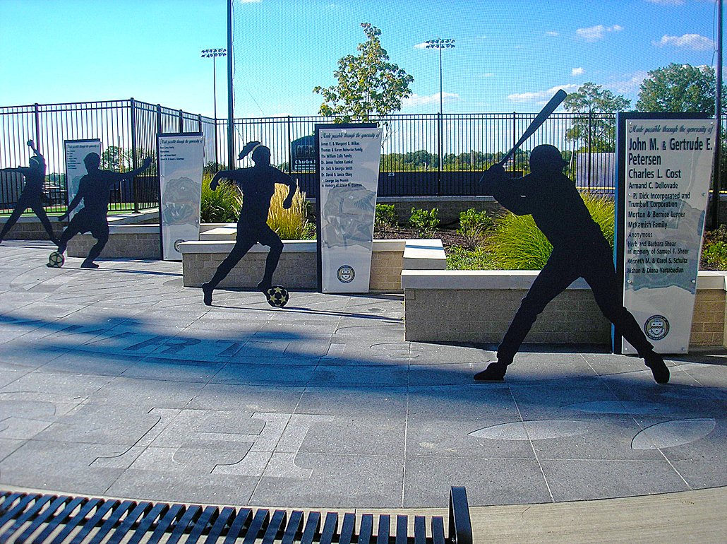 Entrance plaza at the Petersen Sports Complex at the University of Pittsburgh